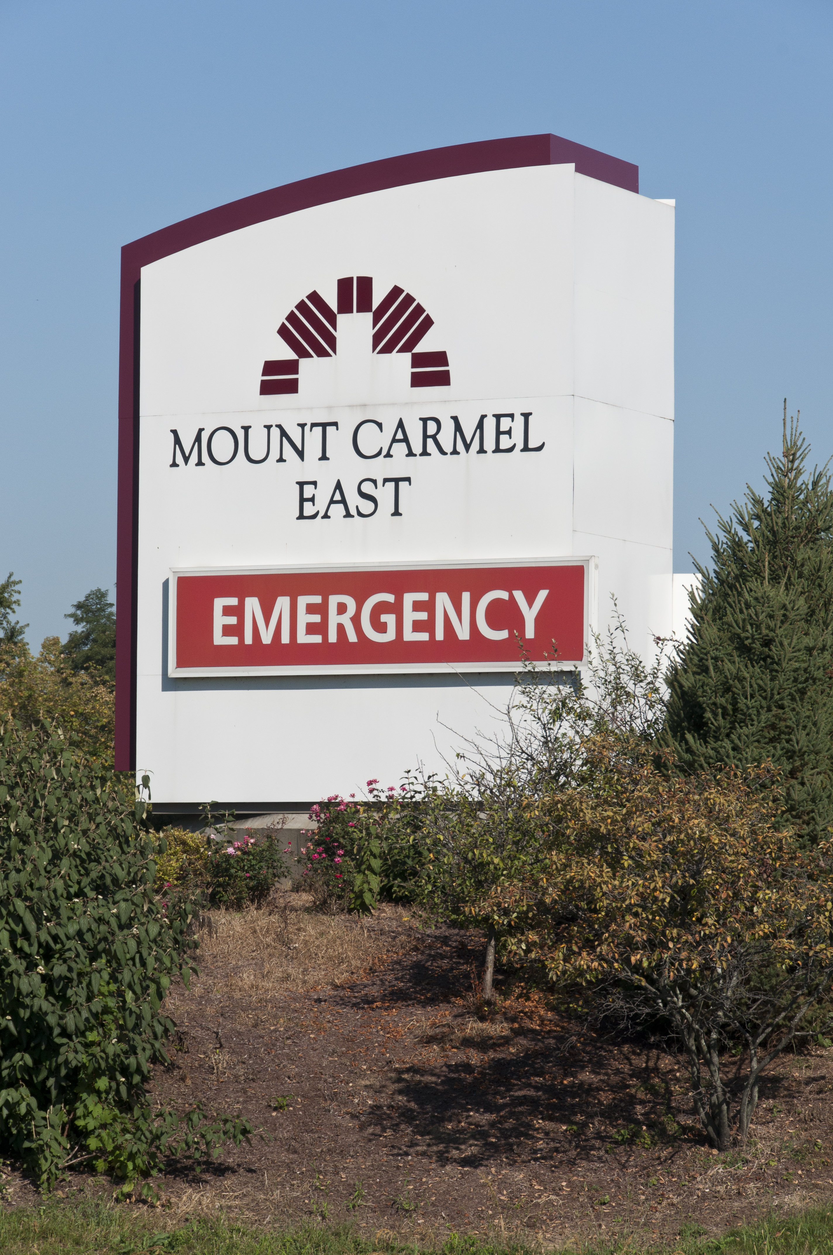 The sign for Mount Carmel East Hospital most easily seen exiting I-270. The Hospital is a primary Hospital serving the East side of Columbus, Ohio.